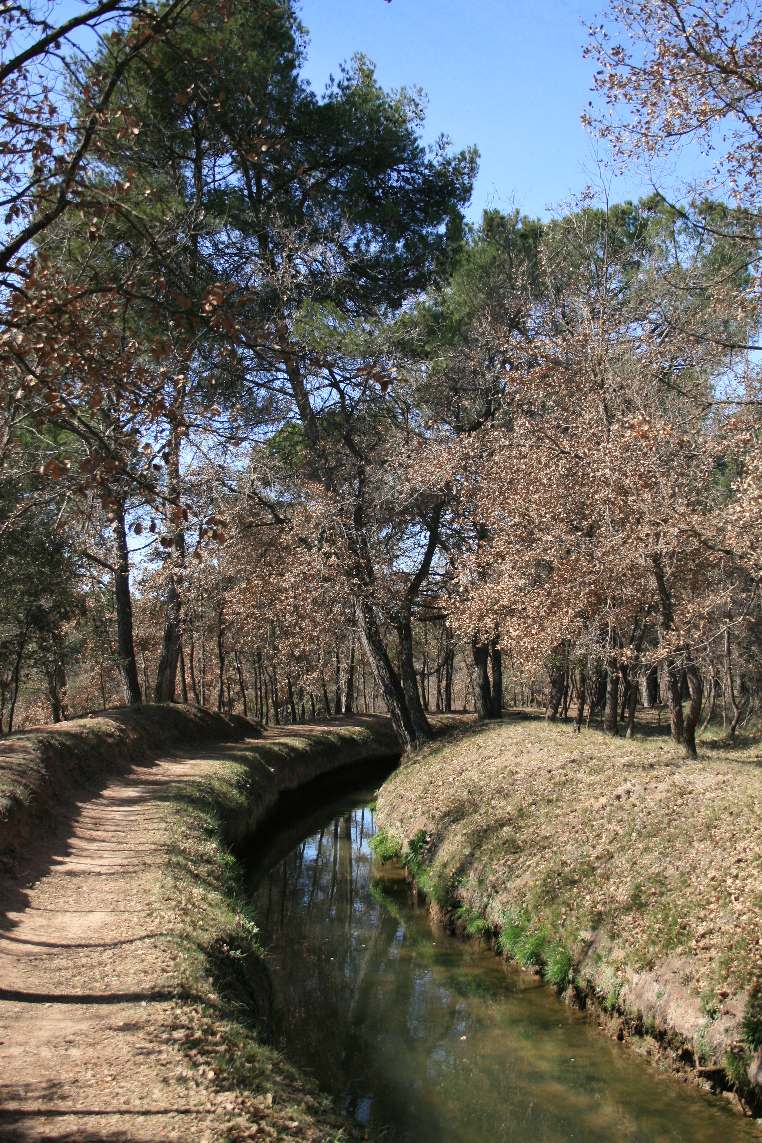 La Sèquia de Manresa al seu pas per Sallent